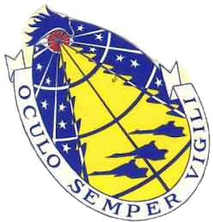 Emblem of the 773d Radar Squadron